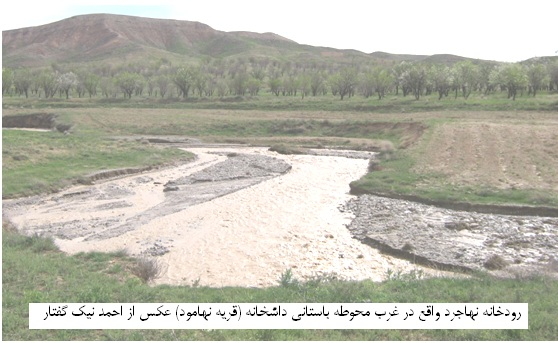 این عکس متعلق به رودخانه نهاجرد در1 کیلومتری شمال روستای زالی وغرب محوطه باستانی داشخانه واقع شده است